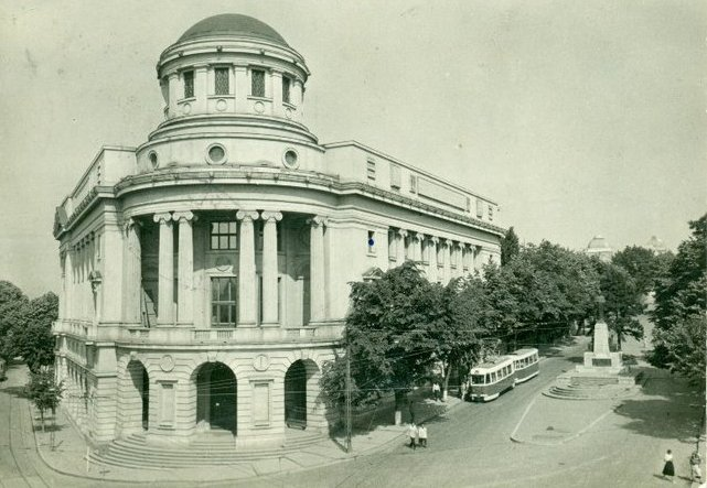 Iasi (Jassy), Romania, Copou Blvd.